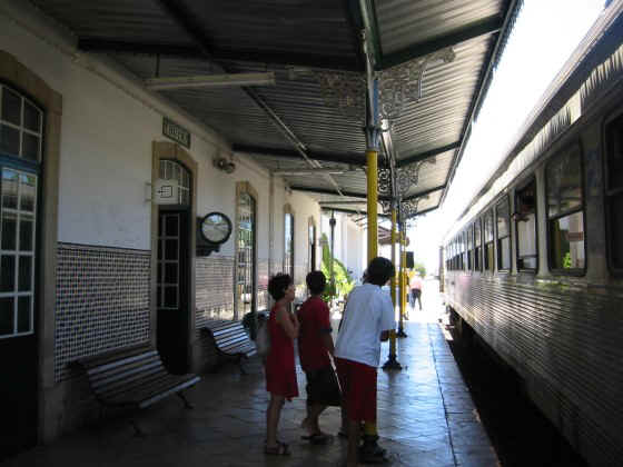 Railway Station Tavira